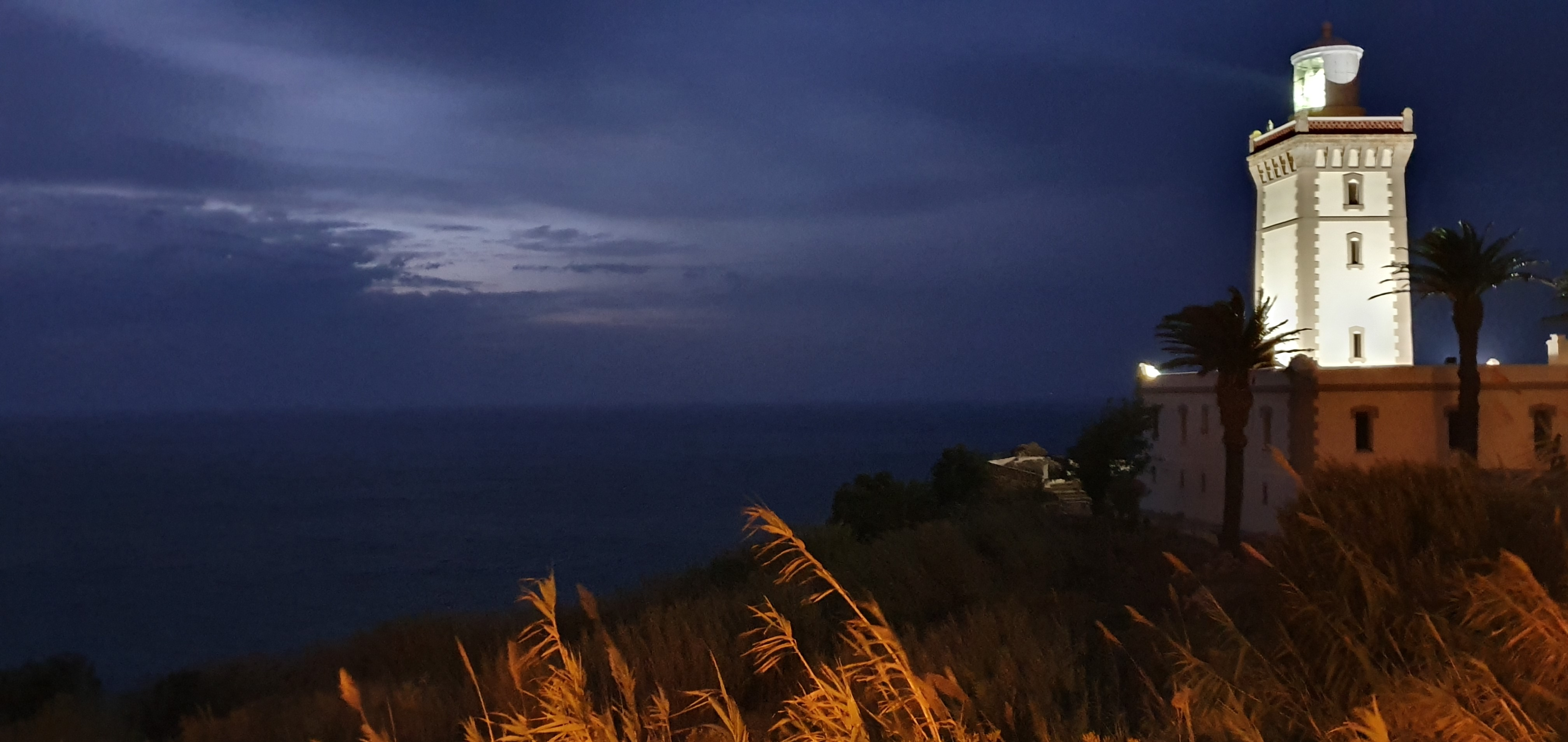 Lighthouse of Cape Spartel, Tangier at the entrance to the Strait of Gibraltar